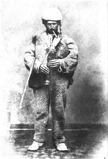 Alphonse Gheux, Wallonian muchosa player - this is a type of bagpipe.